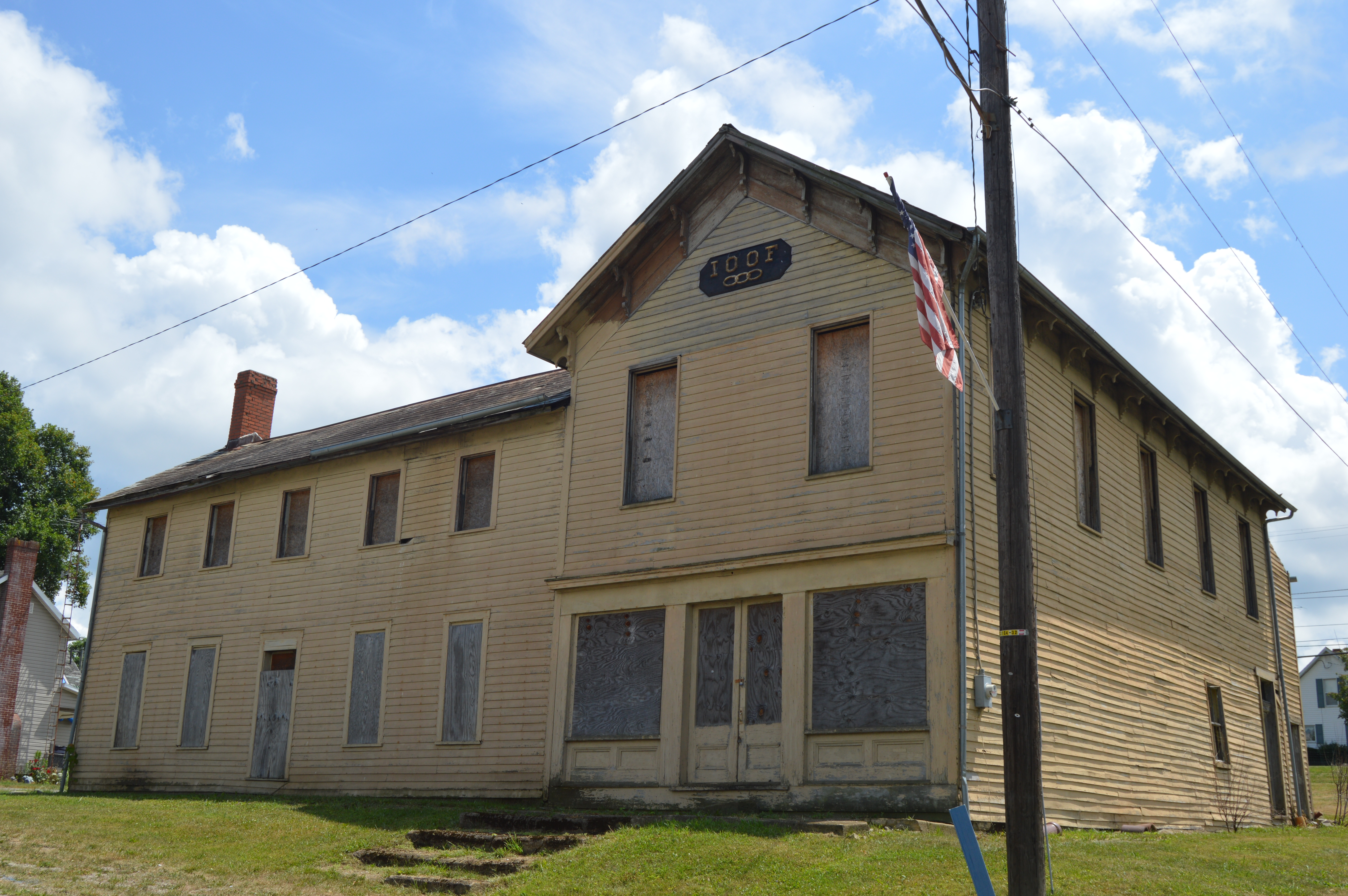 Front and western side of the former Gratiot IOOF lodge building, located at the intersection of Main and Center Streets in Gratiot, Ohio, United States.